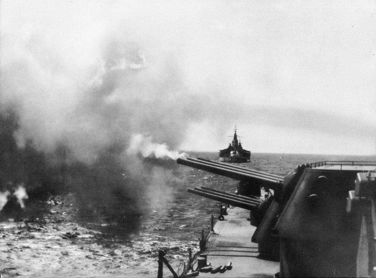 View forward from the U.S. Navy light cruiser USS Biloxi (CL-80) during shore bombardement of Okinawa, Japan, circa in late March or early April 1945. The battleship USS West Virginia (BB-48) is sailing ahead of Biloxi.